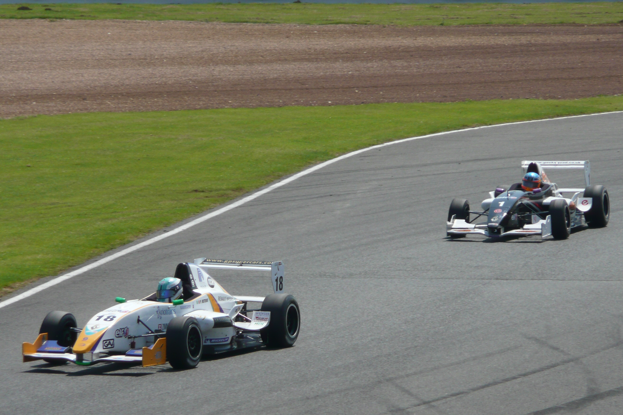 Formula Renault cars exiting Abbey corner at Silverstone in 2008